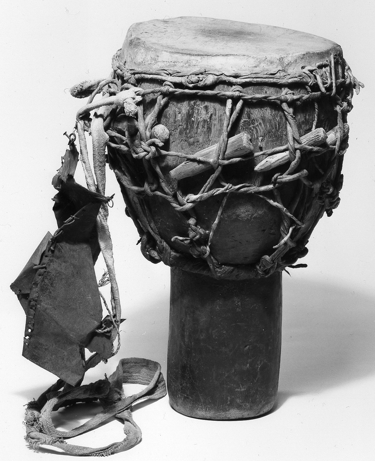 Djembe with sown playing head, from the Nzérékoré region in Guinea, used by the Konon ethnic group. From the collection of Musée de l'Homme, Paris, D.84.1026.493. Added to the collection in 1938.